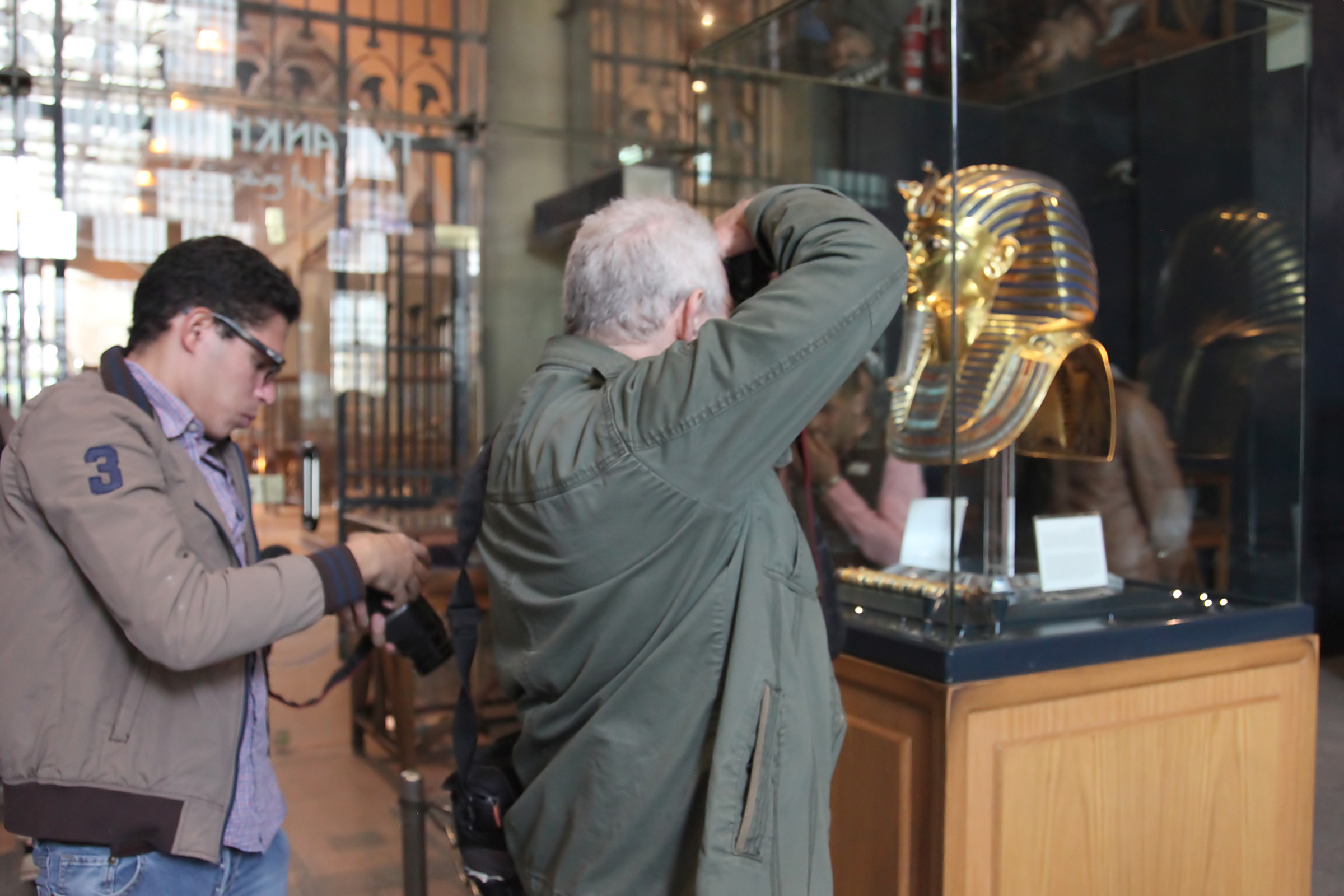 Since January 1, 2016 it is possible again to take photographs in the Egyptian Museum in Cairo.